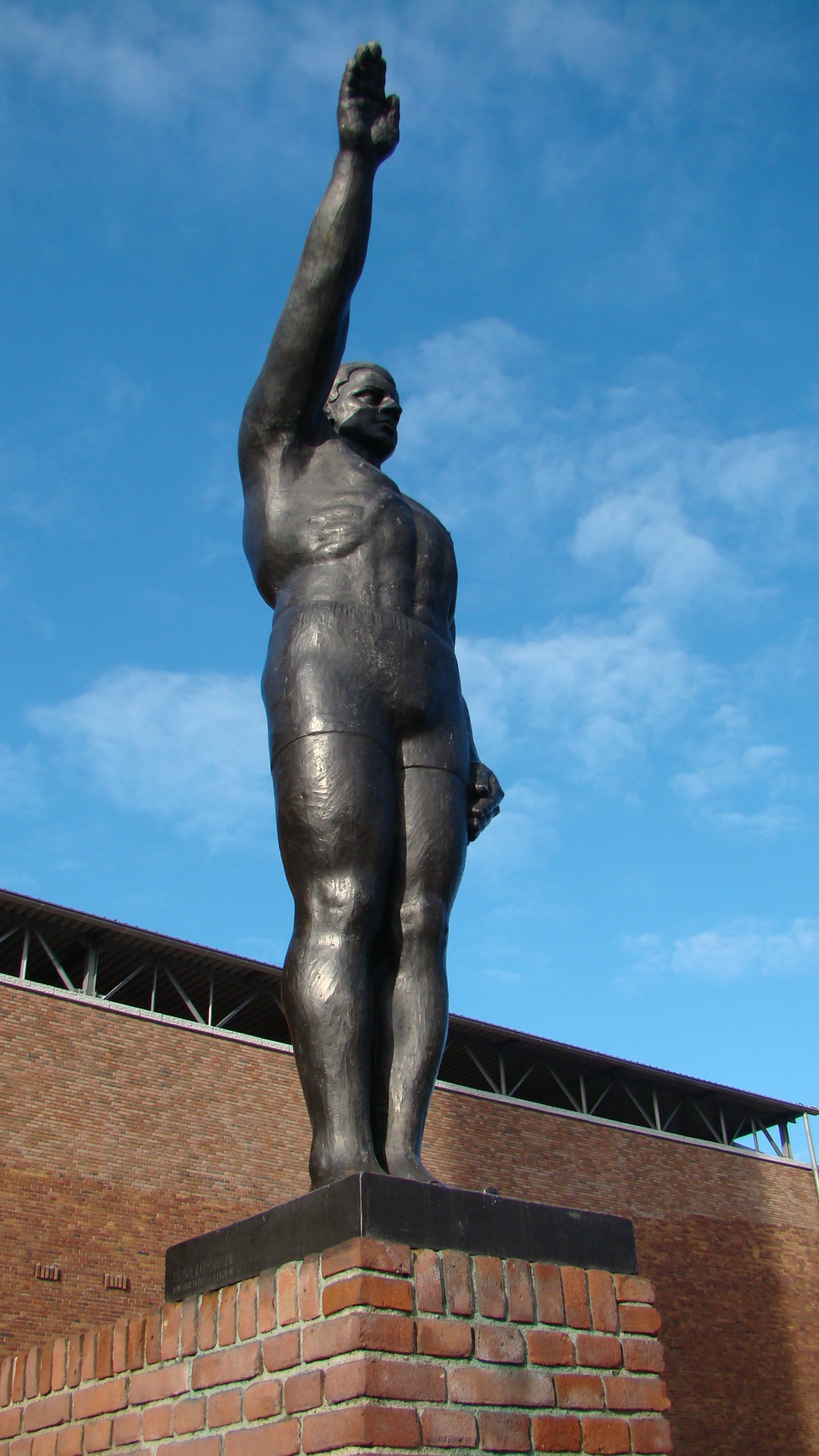 Olympic Greet Statue from Gra Rueb in front of the Olympic stadion Amsterdam, Netherlands. 1928